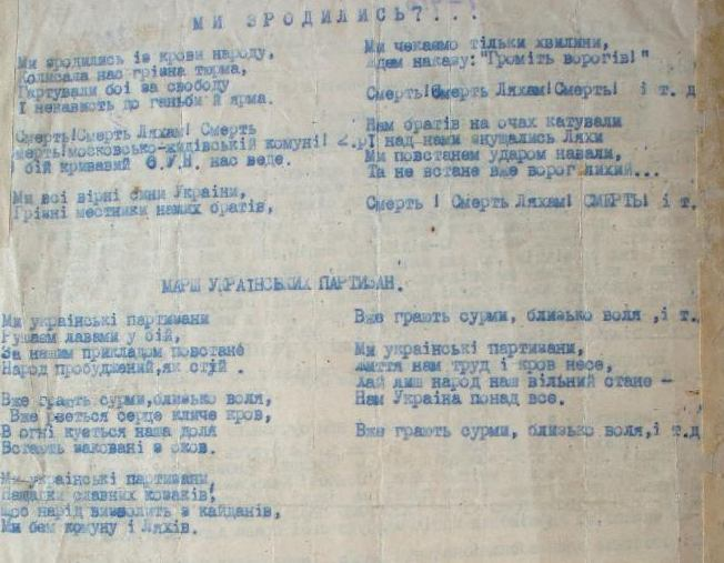 Ukrainian Insurgent Army Anthem and march suggested by Bandera's OUN propaganda unit instruction